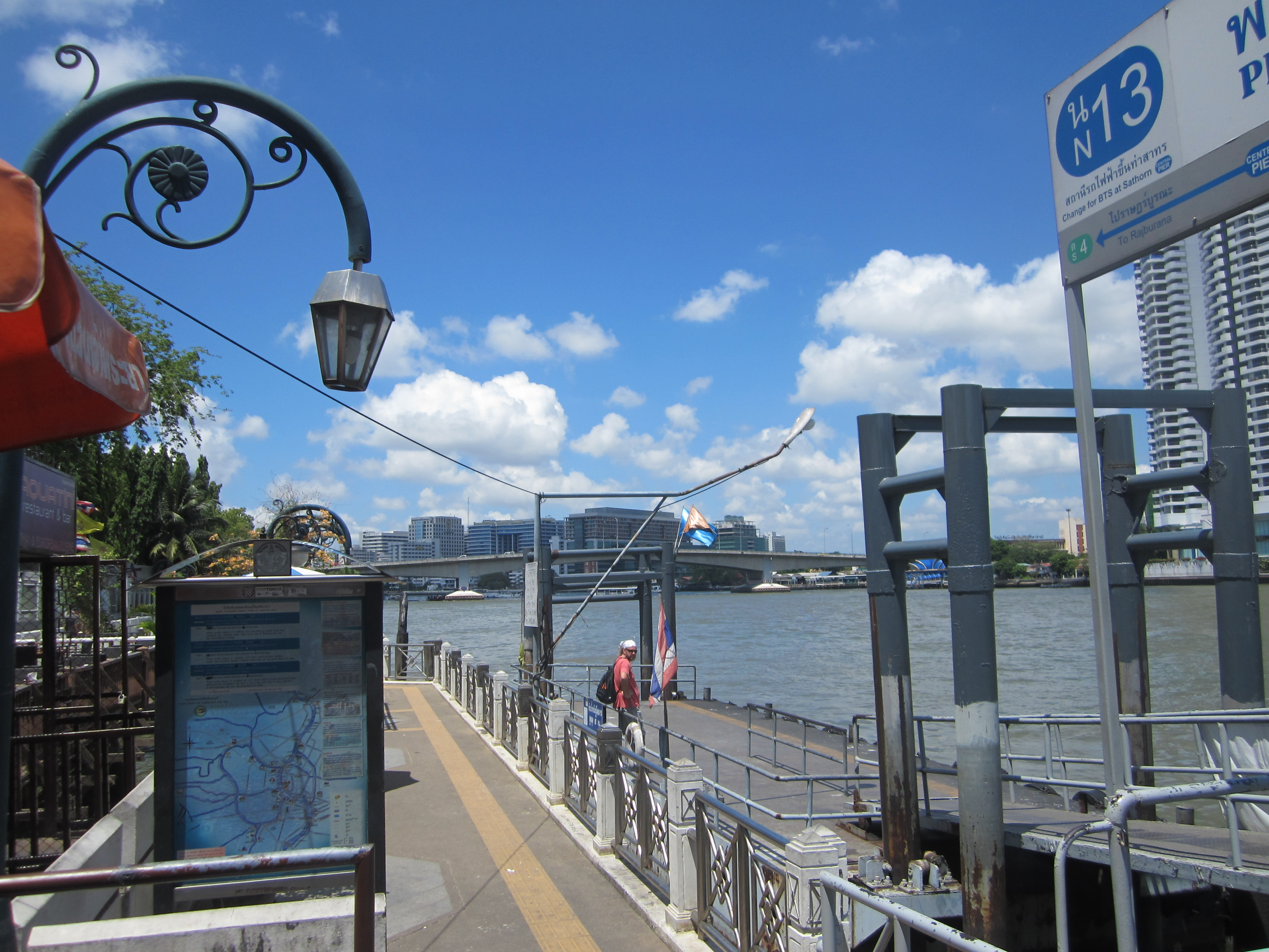 Phra Arthit Pier, a pier of Chao Phraya Express Boat